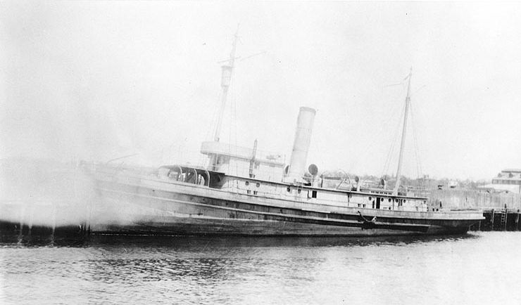 Lykens (U.S. tug, 1899) Probably photographed at about the time she was taken over for Naval Service. She was acquired by the Navy on 18 September 1917 and commissioned on 10 November 1917 as USS Lykens (SP-876). Reclassified AT-56 in 1920, she was stricken on 21 November 1933 and sold on 3 February 1934. The original print is in National Archives' Record Group 19-LCM.